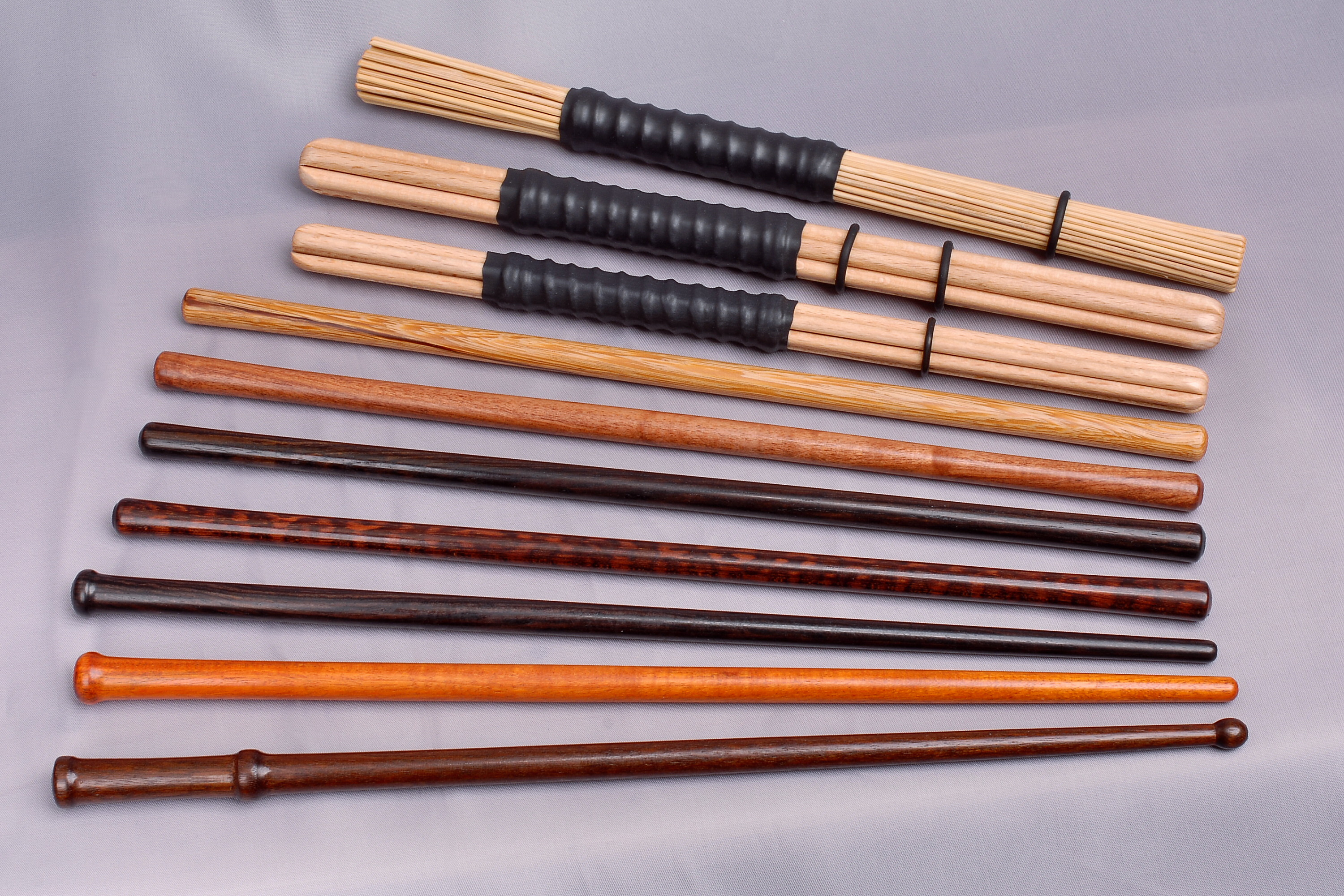 Mallets for modern Bodhrán playing (top to bottom): Hot Rods, Sticks (Bamboo, Mulga, Blackwood, Snakewood), Tipper (Blackwood, Fernambuco, RSE-Special). All made by Ralf Siepmann, Hamburg, Germany.